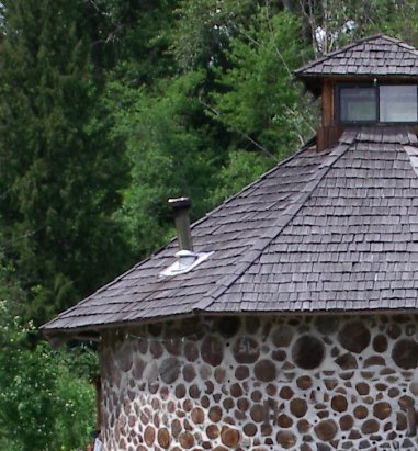 Cordwood house